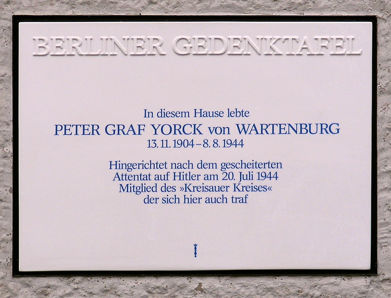 Berlin memorial plaque, Peter Graf Yorck von Wartenburg, Hortensienstr 50, Berlin-Lichterfelde, Germany